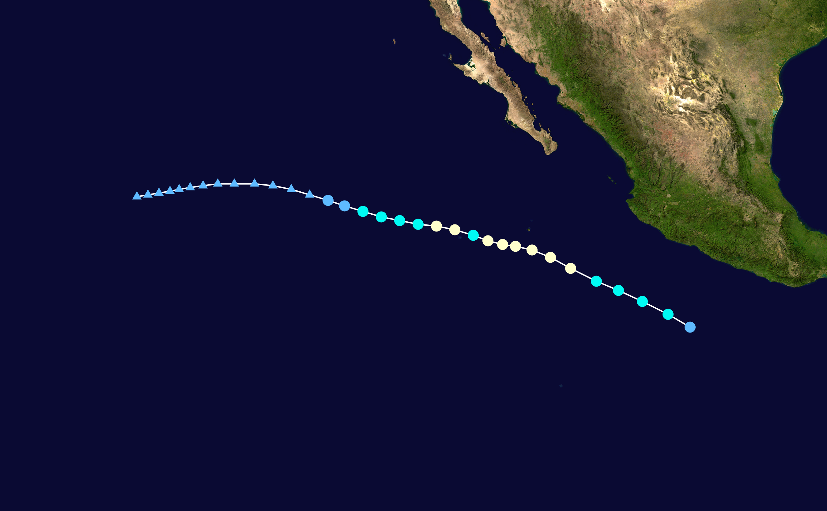 Track map of Hurricane Carlotta of the 2006 Pacific hurricane season. The points show the location of the storm at 6-hour intervals. The colour represents the storm's maximum sustained wind speeds as classified in the Saffir–Simpson scale (see below), and the shape of the data points represent the nature of the storm, according to the legend below. Saffir–Simpson scale Tropical depression≤38 mph≤62 km/h Category 3111–129 mph178–208 km/h Tropical storm39–73 mph63–118 km/h Category 4130–156 mph209–251 km/h Category 174–95 mph119–153 km/h Category 5≥157 mph≥252 km/h Category 296–110 mph154–177 km/h Unknown Storm type Tropical cyclone Subtropical cyclone Extratropical cyclone / Remnant low / Tropical disturbance / Monsoon depression